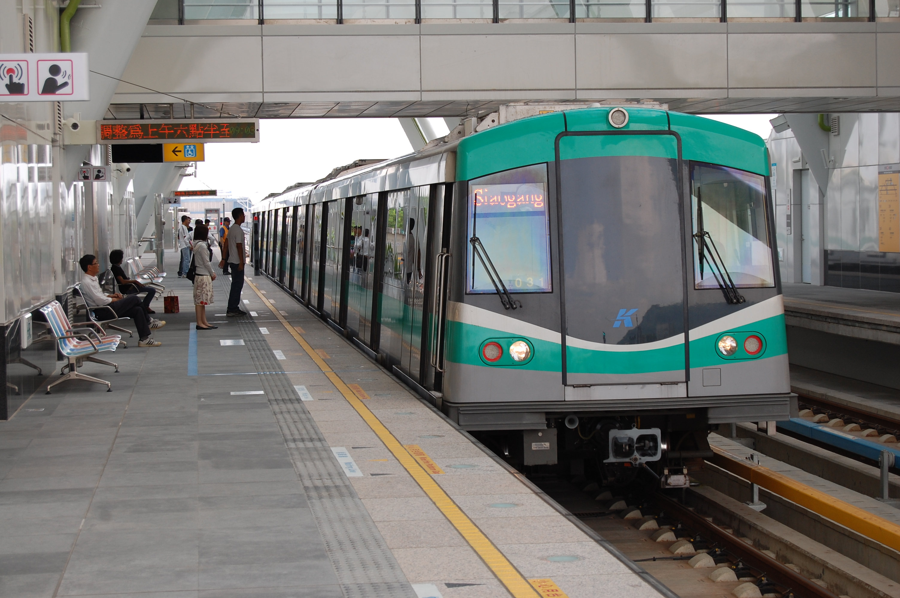 Siaogang Train / I think this is at the World Games station...